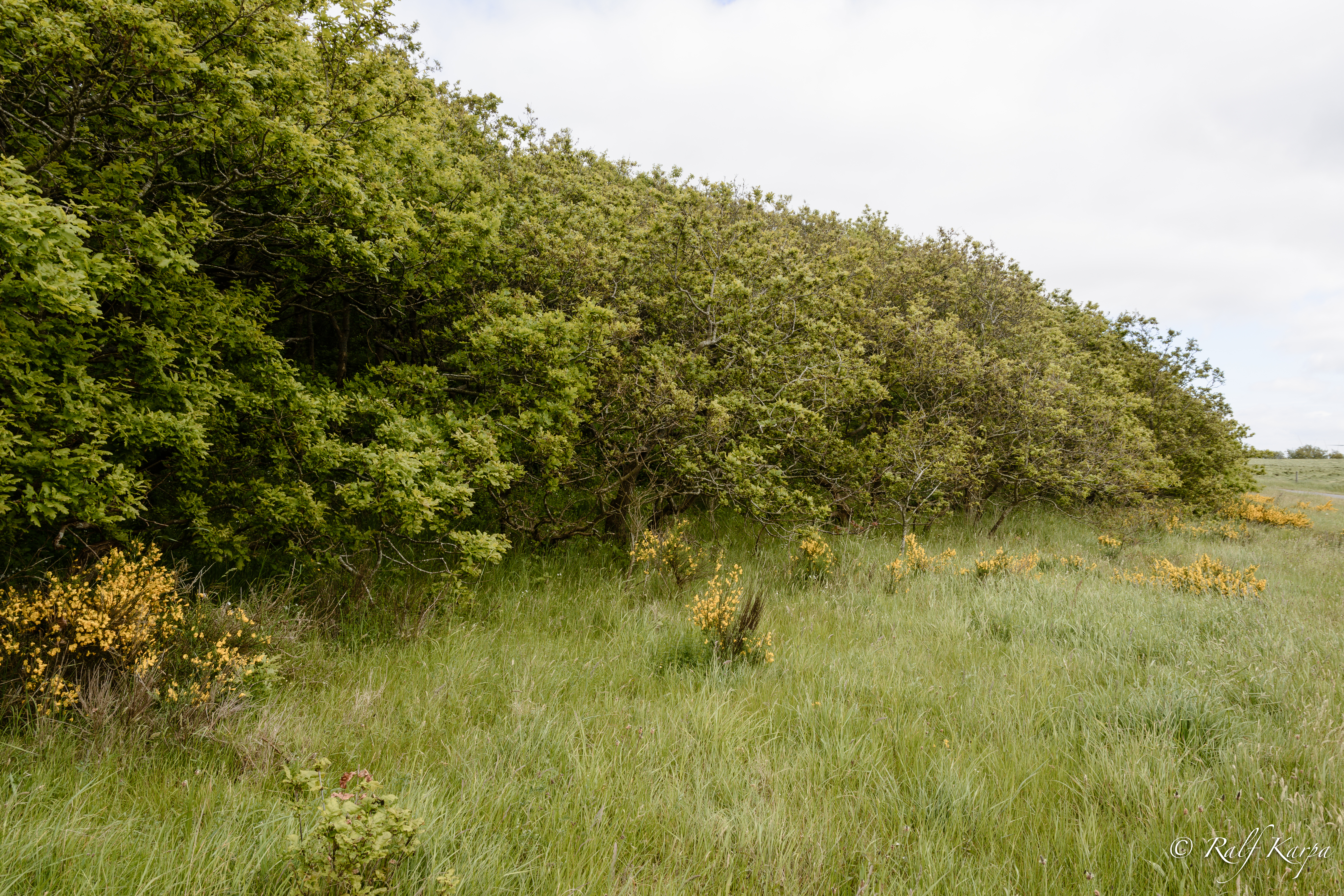 Typical "Eichenkrattwald" in the area of Berensch close to the Berenscher Schedelstein